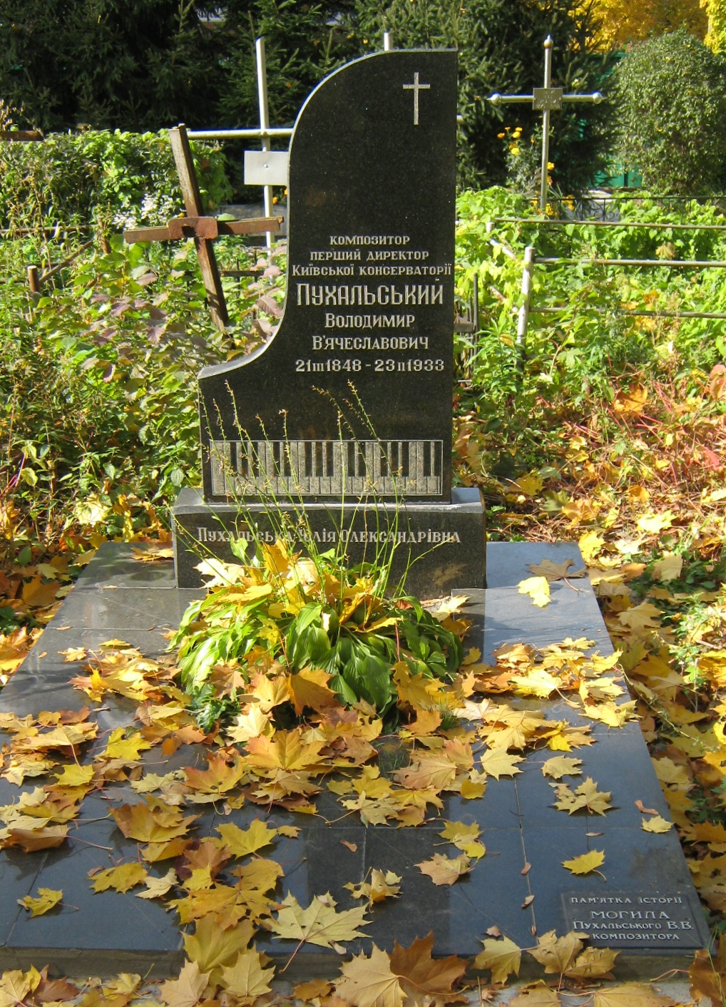 Grave of Vladimir V. Puchalsky